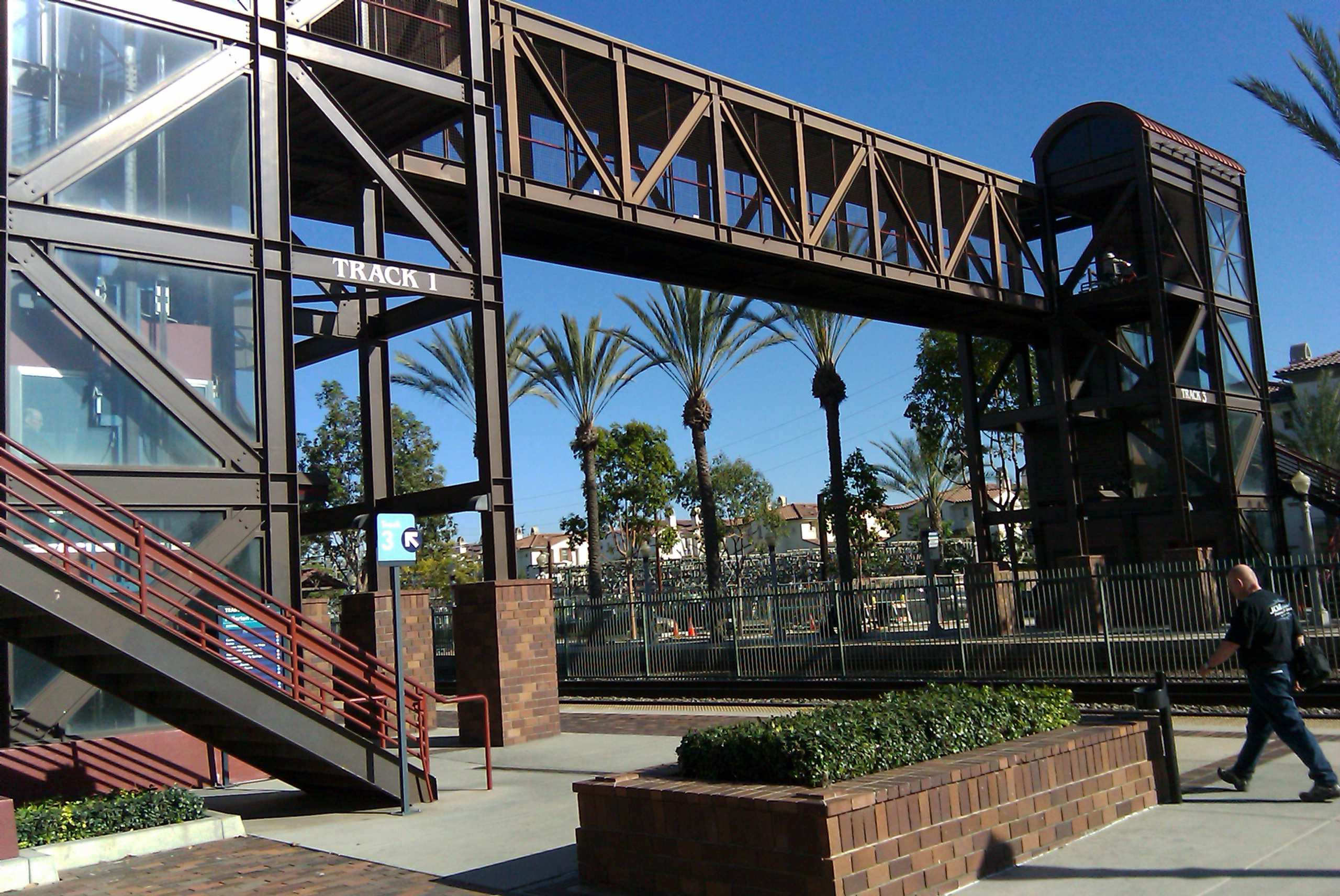 View of tracks and pedestrian bridge at Fullerton Train Station.